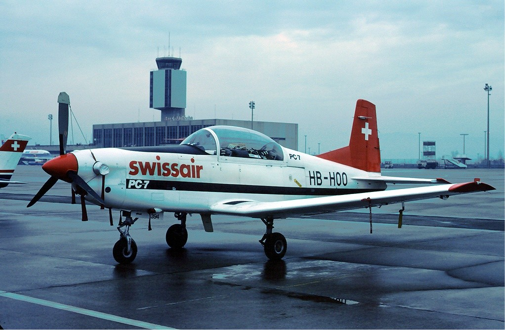 A Pilatus PC-7 of Swissair at Basle Airport